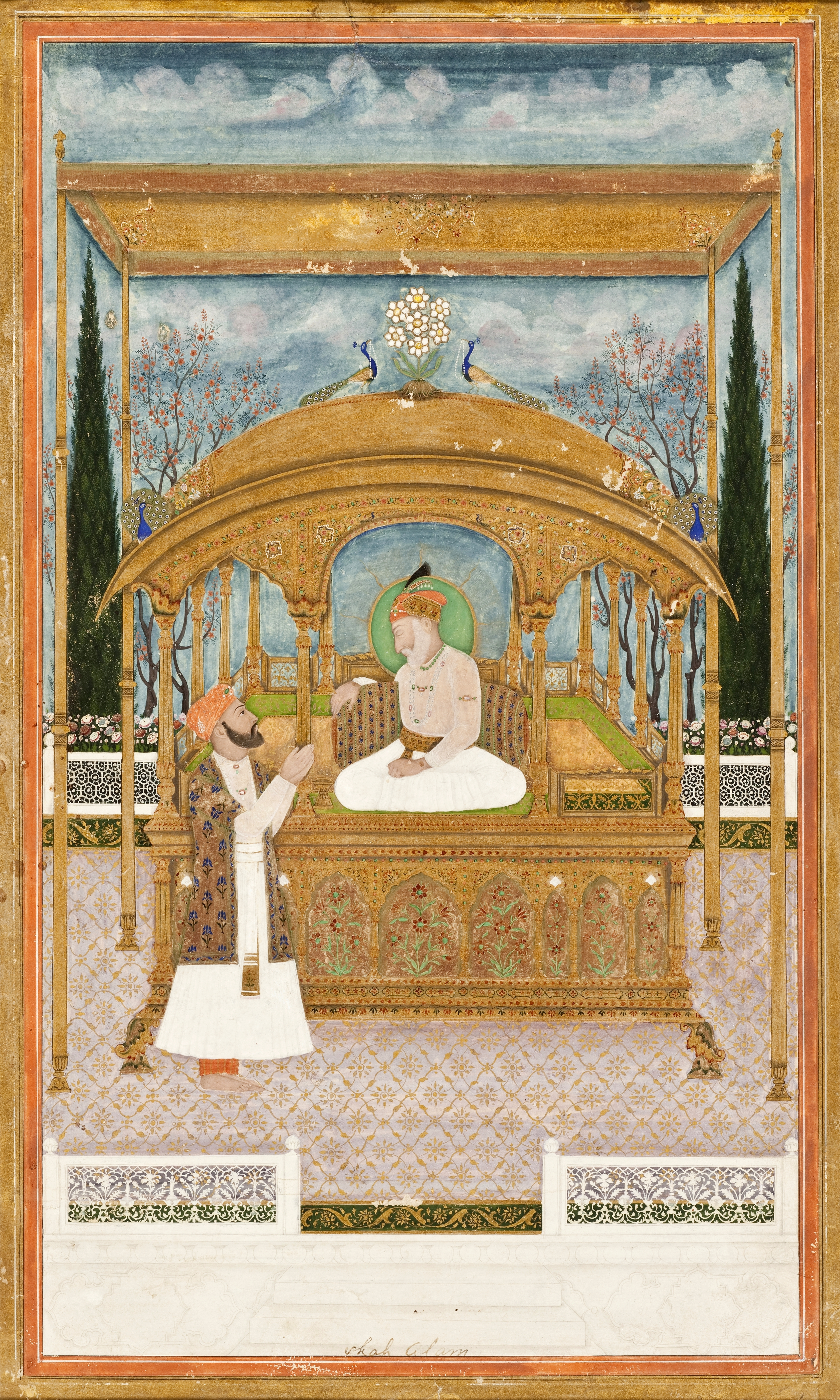 India, Delhi, Mughal empire, 1801 Drawings; watercolors Opaque watercolor, gold, and ink on paper Indian Art Special Purpose Fund (M.77.78) South and Southeast Asian Art